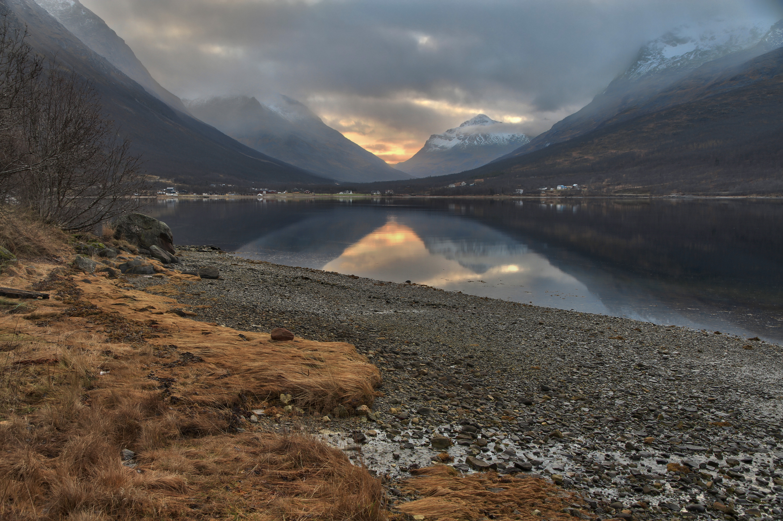 Sørbotn, the far end of Ramfjorden in Tromsø municipality, Troms, Norway in 2011 October.